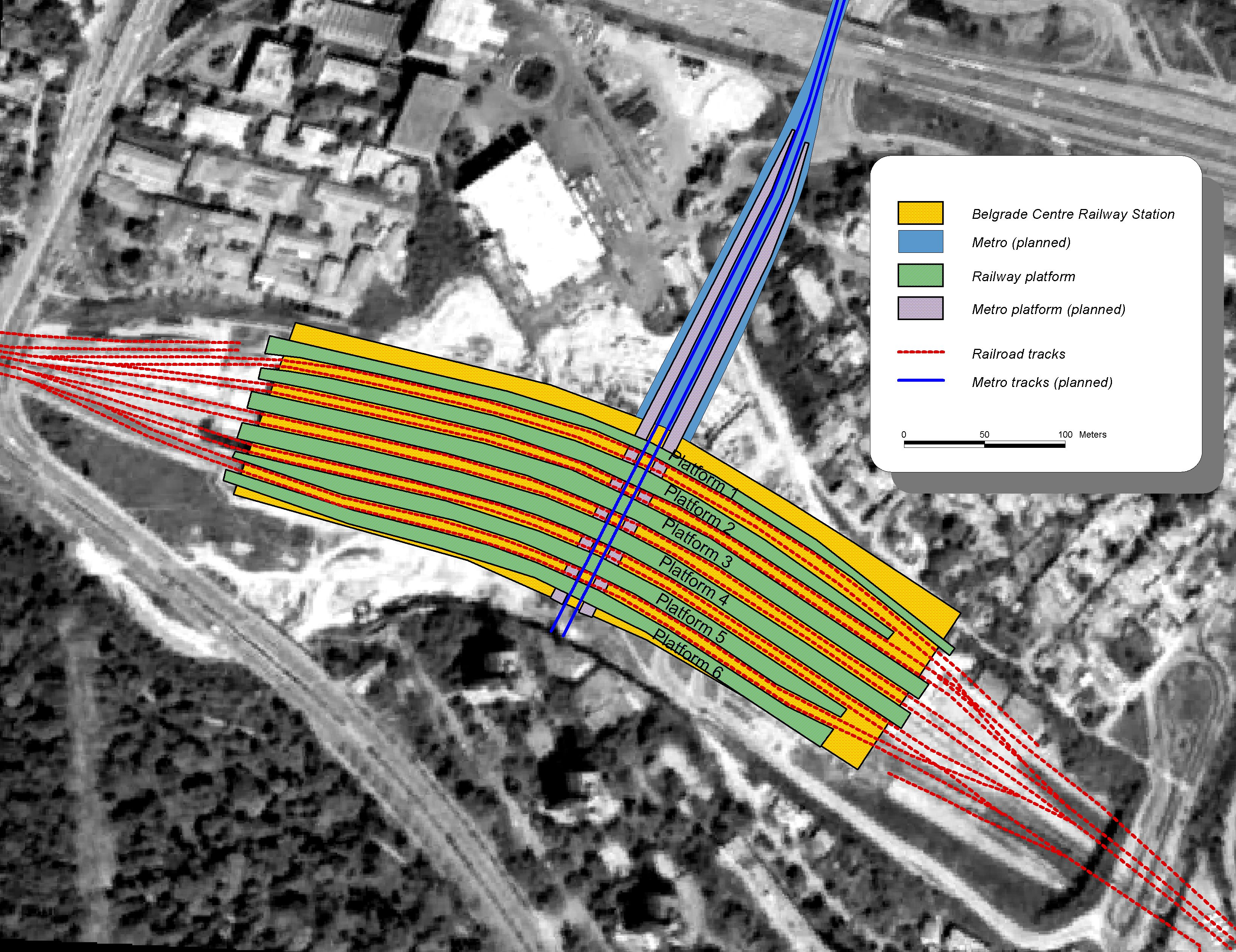 Planned completition of Belgrad centar railway station